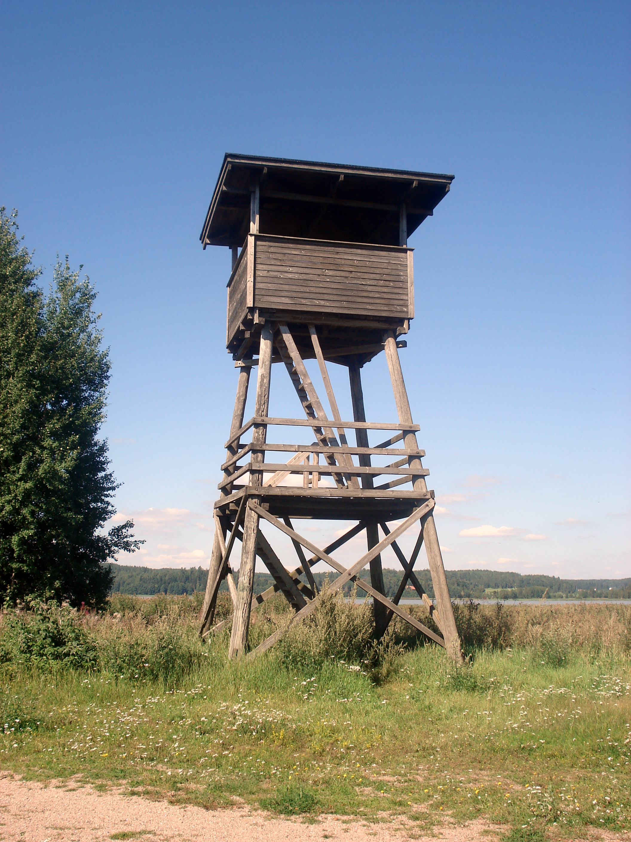 Birders using a tower hide at Halikonlahti, Salo, Finland.